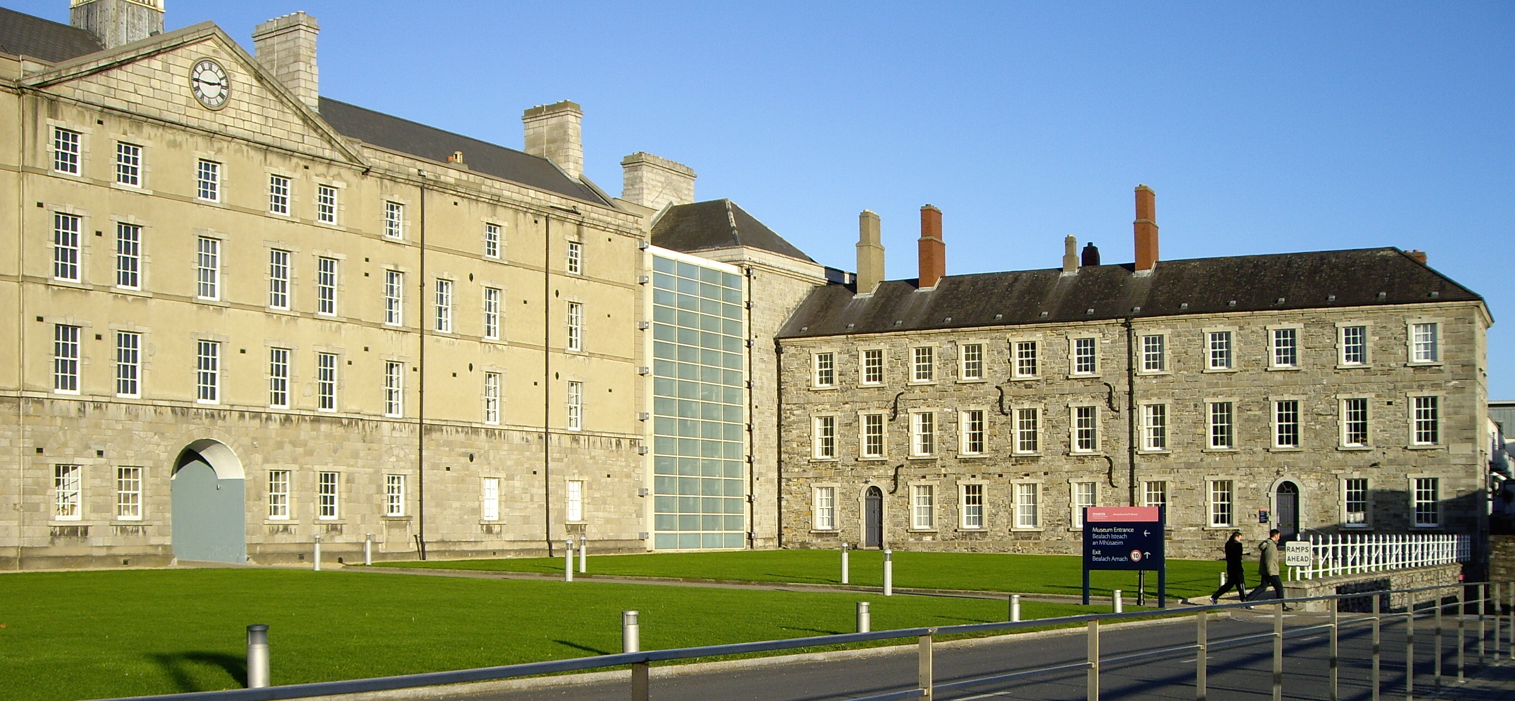 Collins Barracks (Dublin) front